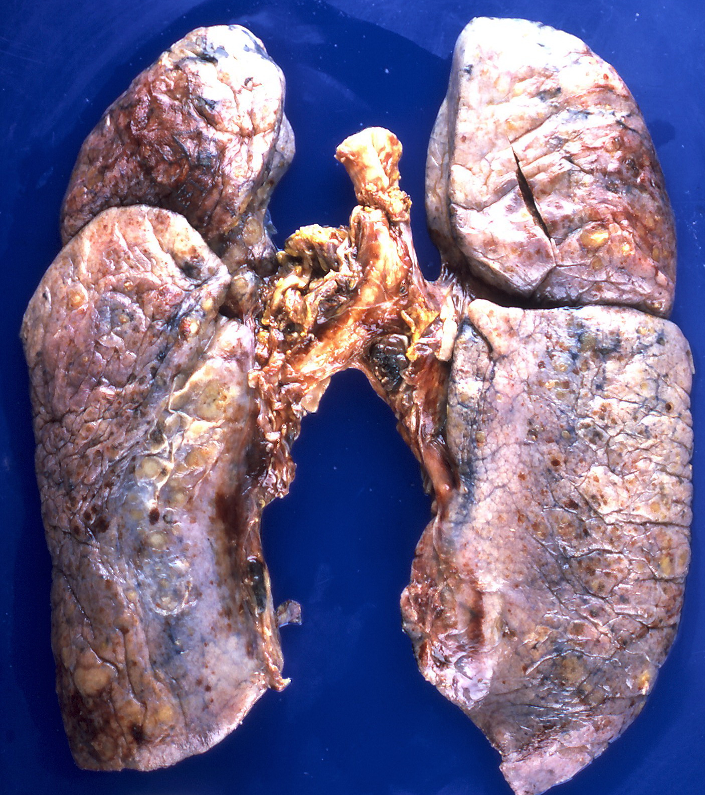 Nodular deposits of amyloid on the pleural surfaces from a case of primary amyloidosis..